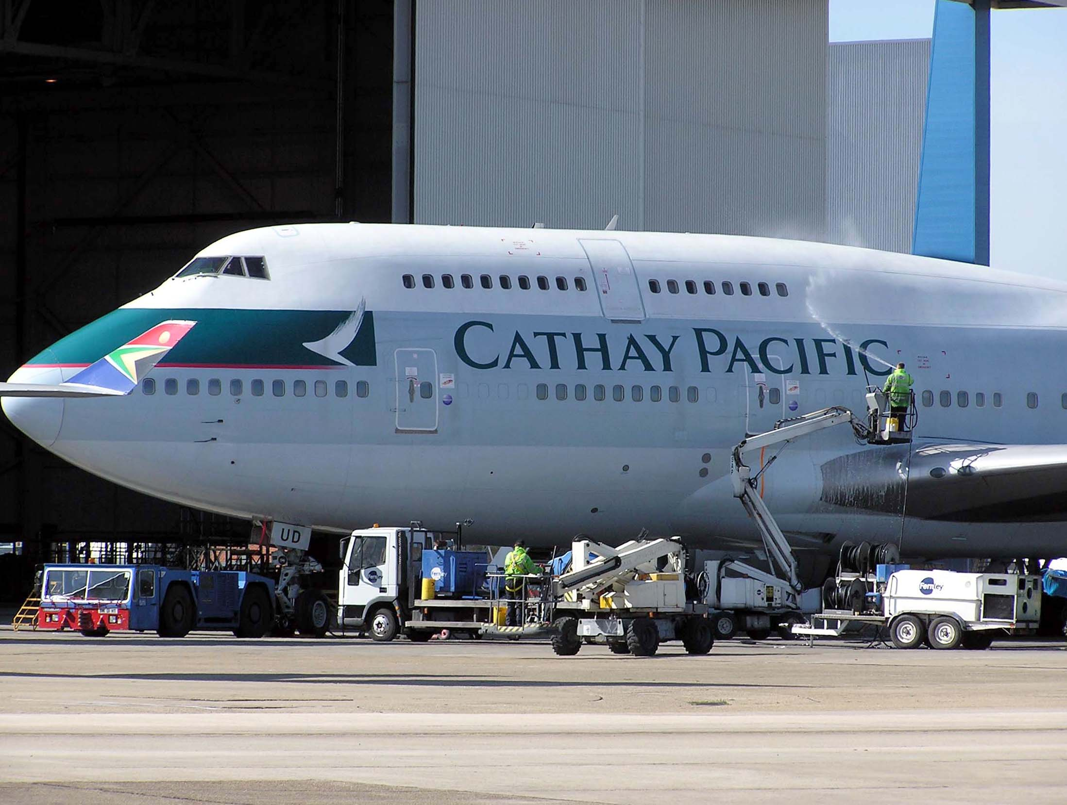 Cathay Pacific Boeing 747-400 (B-HUD) being cleaned in the maintenance area at London (Heathrow) Airport, England. The object below the flight deck windows is the winglet of a South African Airways 747.